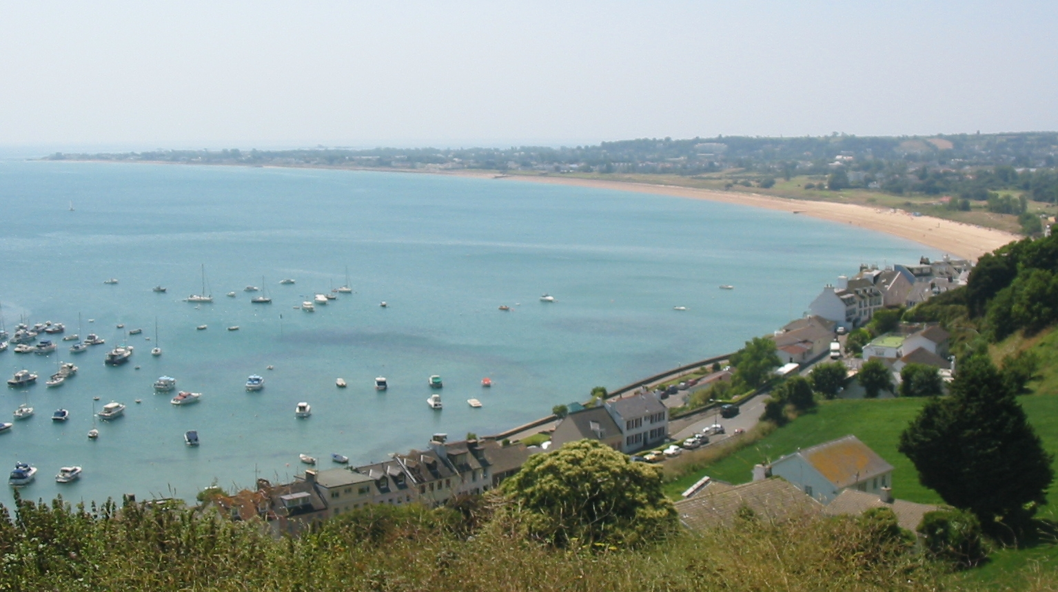 View over Royal Bay of Grouville fom Mont St. Nicolas, Jersey Photo taken by Man vyi with Canon PowerShot A40 on 15/7/2005